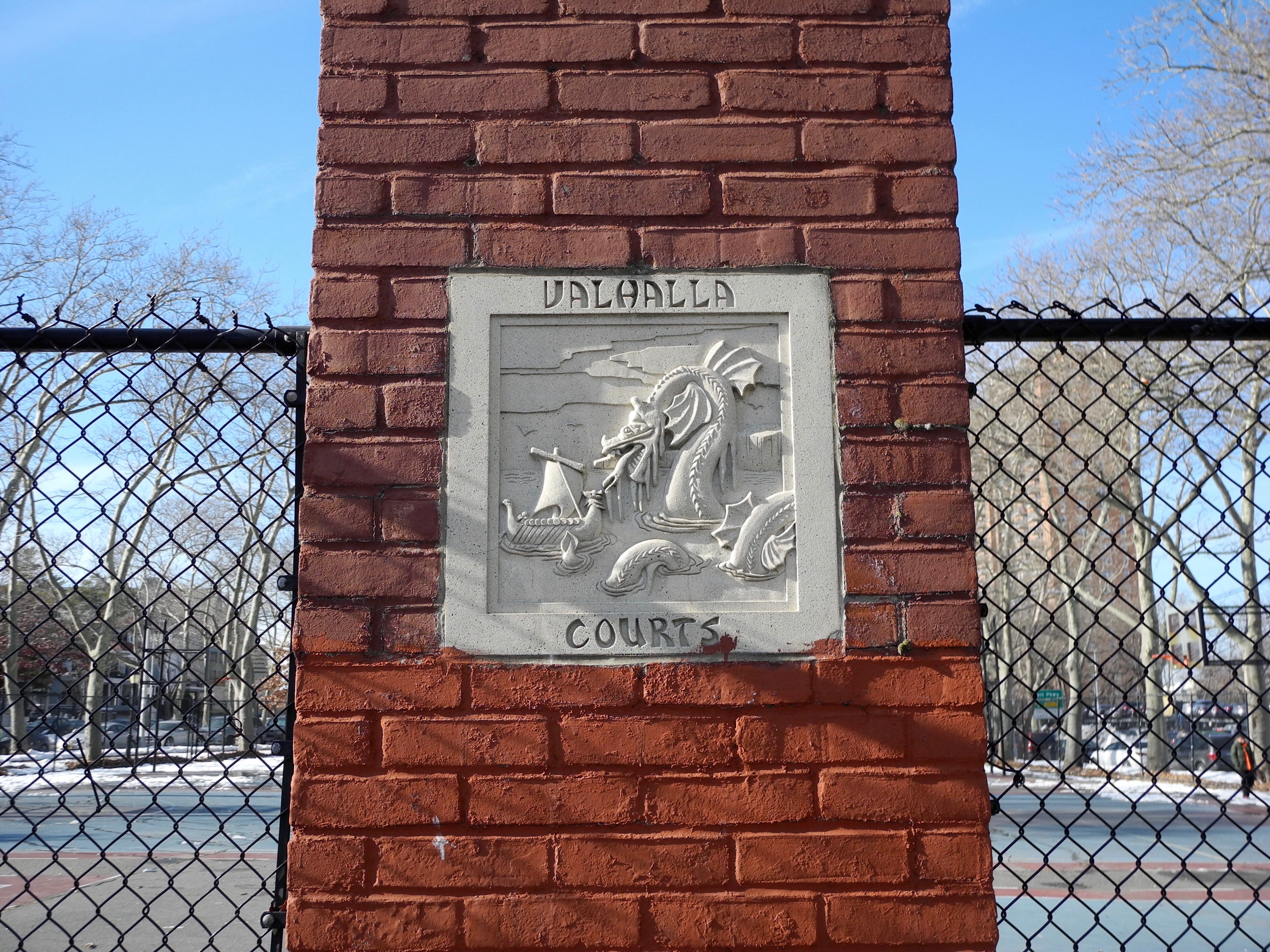 The name of these basketball courts point to the erstwhile Norwegian heritage of this part of Brooklyn.